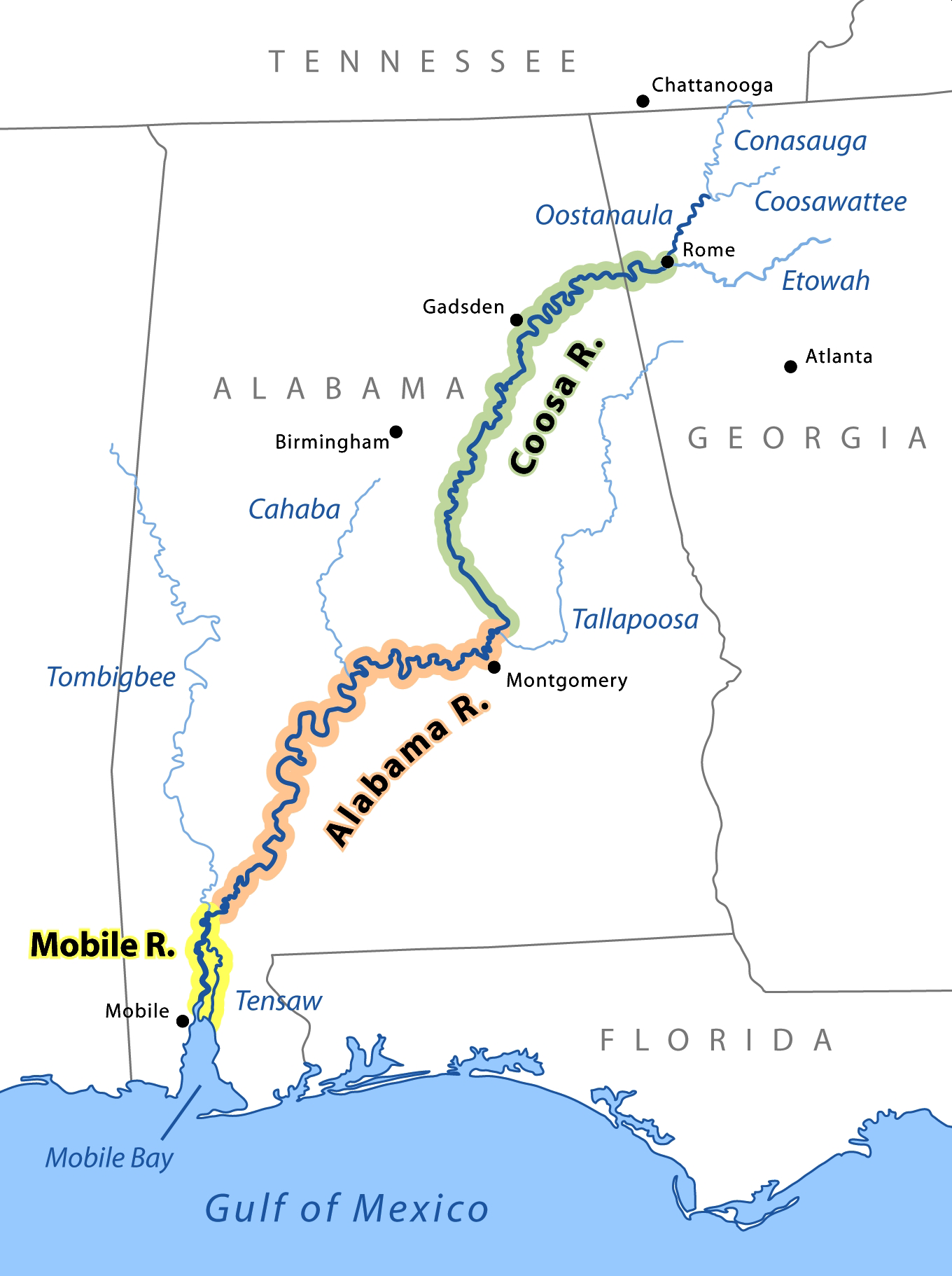 Map showing the Mobile-Alabama-Coosa River for use on wikipedia pages about those rivers, which currently have poor or no maps. Also intended to show how the main river changes its name several times. Style inspired by the Commons image "Rhein-Karte.png". Revised earlier version to make tones darker. Revised to correct the position of Rome, Georgia.